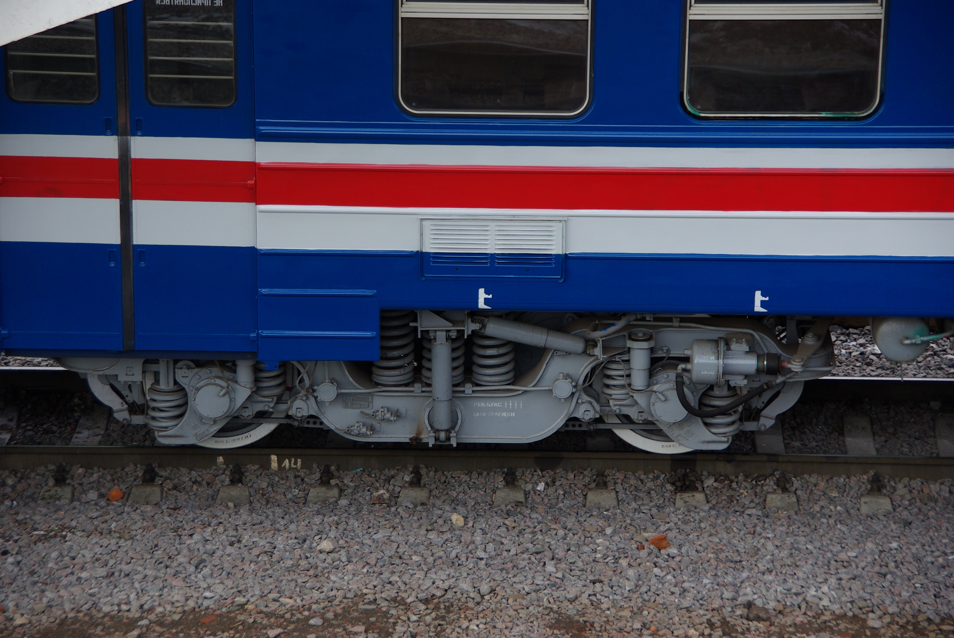 Experimental DC EMU with asynchronous drive, with never work with passengers. Build in 2000 by DMZ. In 2010 part of the cars sent to Omsk State Transport University. Photo made in Moscow, Pererva depot.